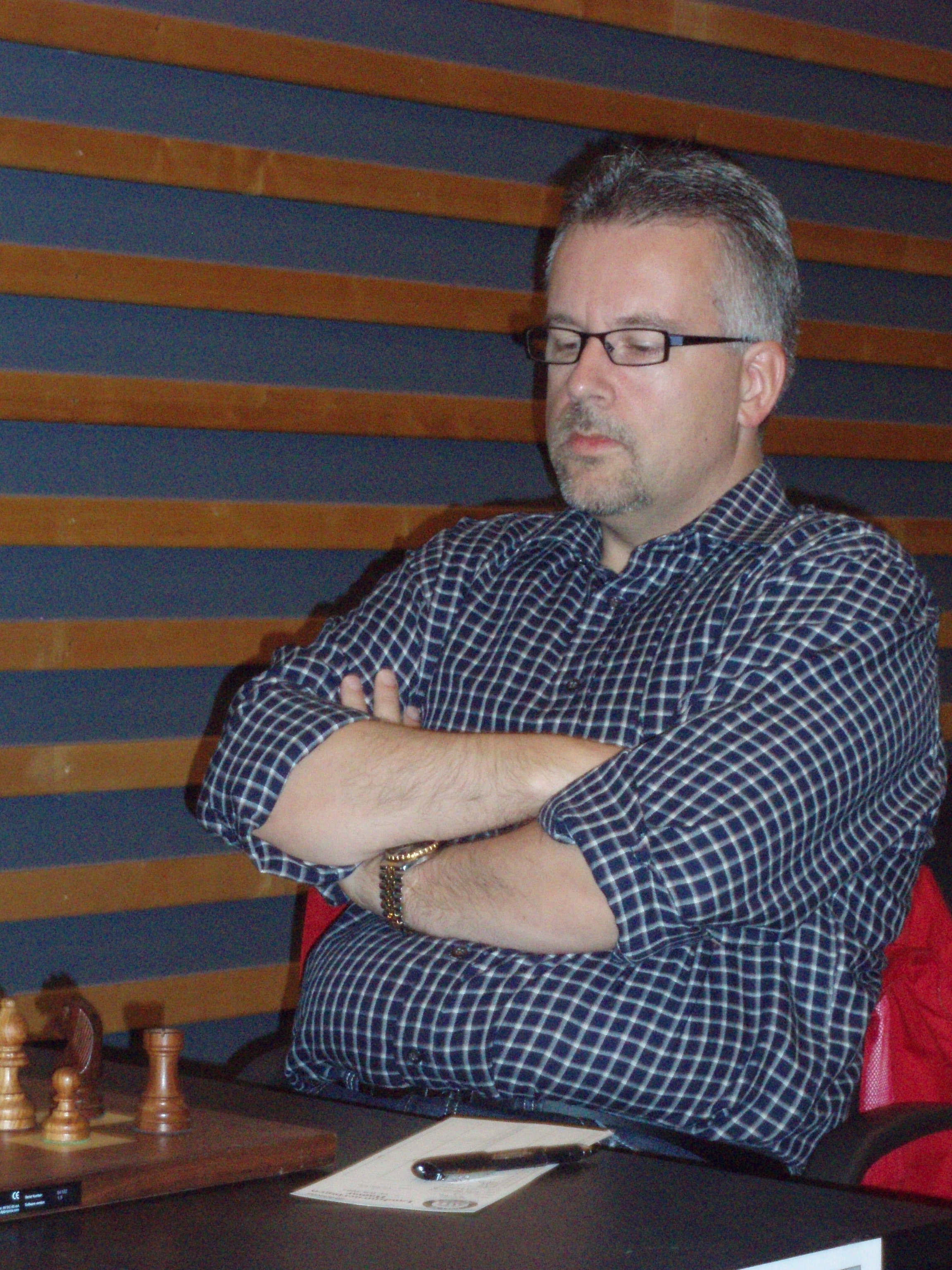 Einar Gausel, Chess Grandmaster, at the Norwegian Chess Championship at Hamar 2007 Einar Gausel, stormeister i sjakk, NM på Hamar 2007